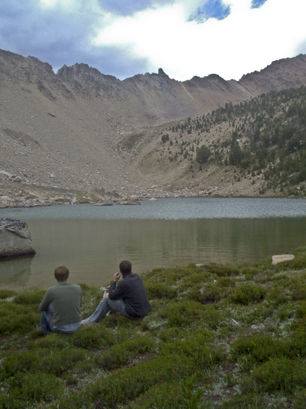 Taken while hiking August 2007. On a side note, the trout fishing was outstanding in this little lake!